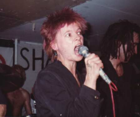 British singer Eve Libertine performing at the Wapping Anarchist Centre, London